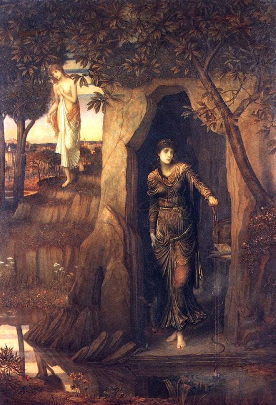 Circë and Scylla, Oil on canvas. George Holt discovered Strudwick’s work in the collection of rival Liverpool shipowner William Imrie at the Holmstead, North Mossley Hill Road. In 1890 he decided he wanted his own painting by the artist and purchased this subject, taken from Greek mythology as retold by the Roman author Ovid. The enchantress Circe, jealous of the maid Scylla with whom her favourite Glaucus has fallen in love, poisons the water in which Scylla is about to bathe, turning her into a sea monster. Following his acquisition of this work, in what was his most individualistic act of art patronage, Holt went on to commission three more paintings directly from Strudwick.